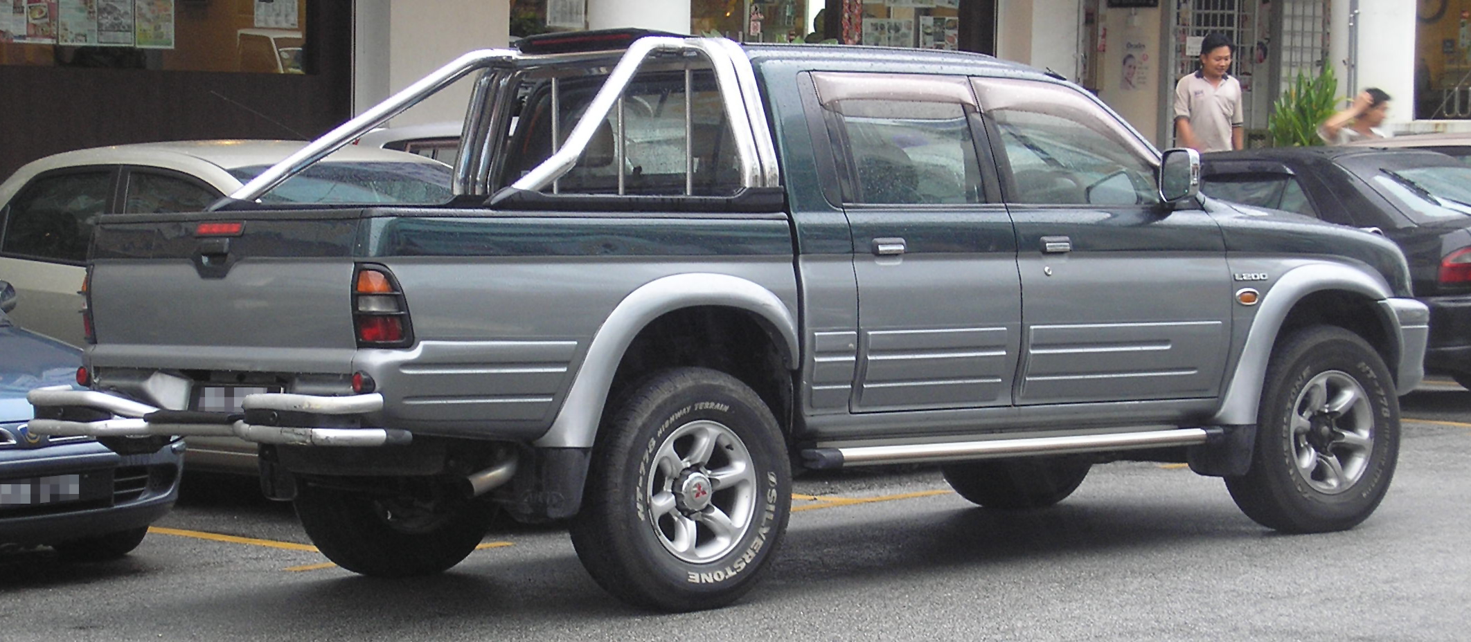 Rear-side shot of a third generation Mitsubishi L200/Storm with an open bed, in Serdang, Selangor, Malaysia.